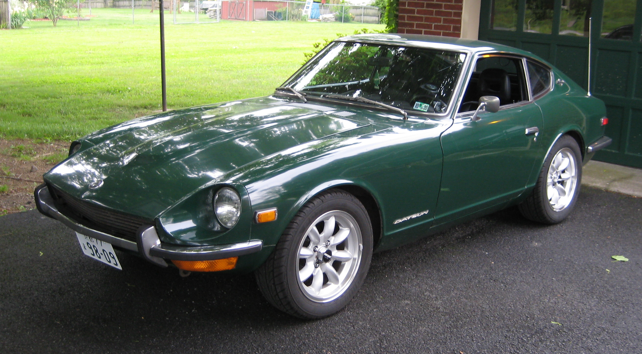 1971 Datsun 240Z in 907 Racing Green